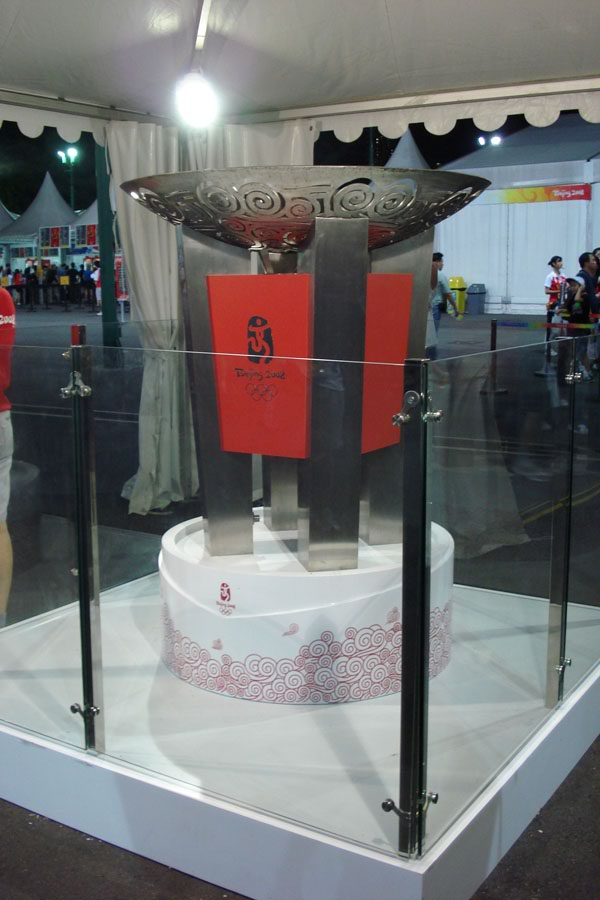 Beijing 2008 Olympics - Flame Basin, had been shown on The Hong Kong Olympic Equestrian Venue (Sha Tin) during the game.